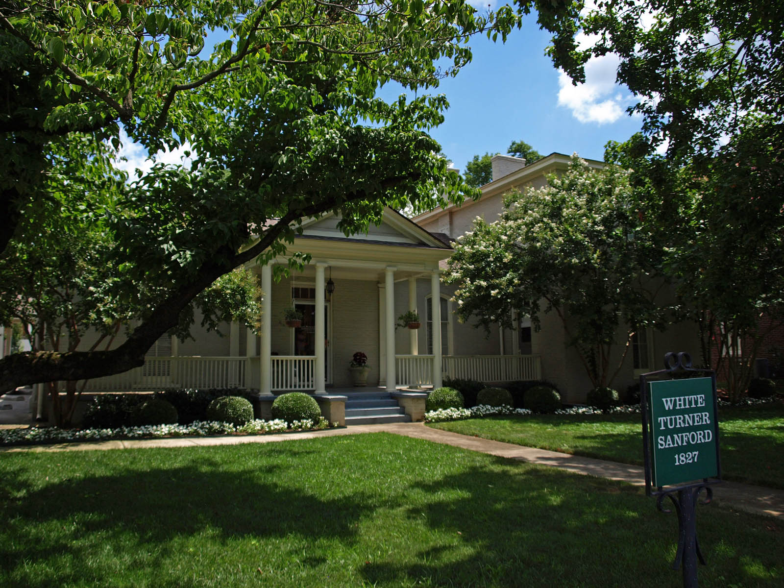 The White-Turner-Sanford House in Huntsville, Alabama, listed on the National Register of Historic Places.